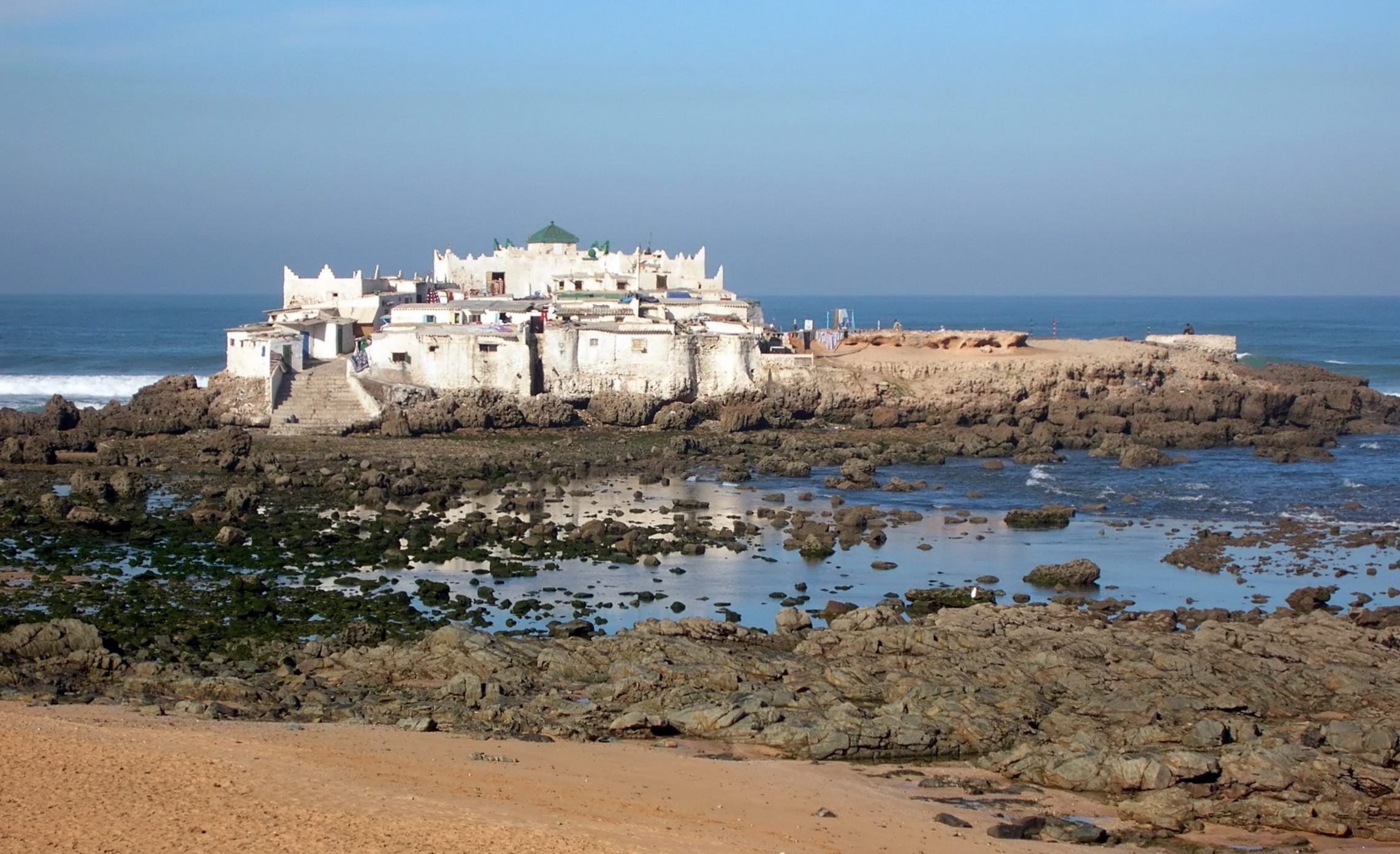 Sidi Abderrahman near Casablanca, Morocco